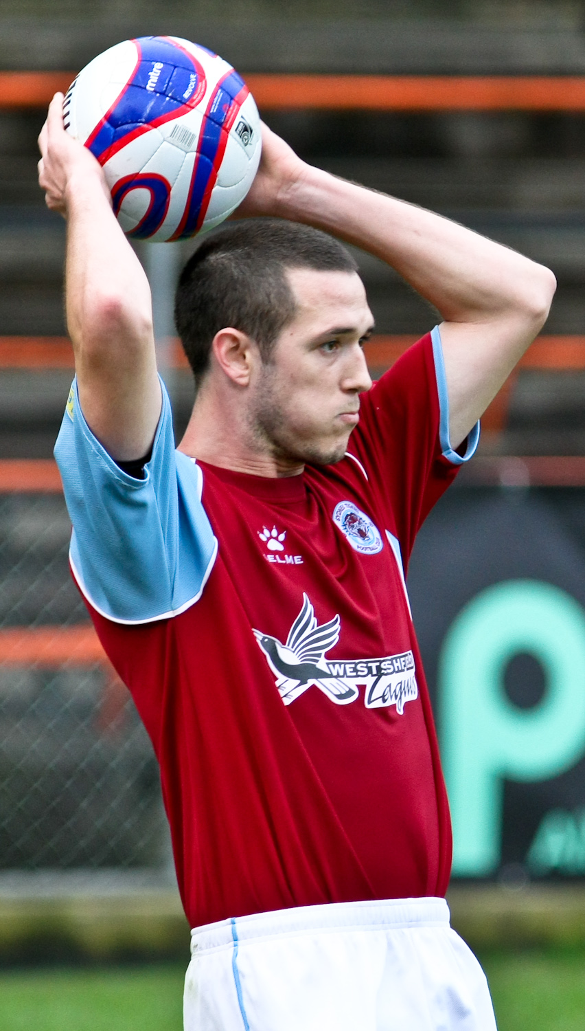 Mark Byrnes playing for the Sydney Tigers against Sydney Olympic in the NSW Premier League.